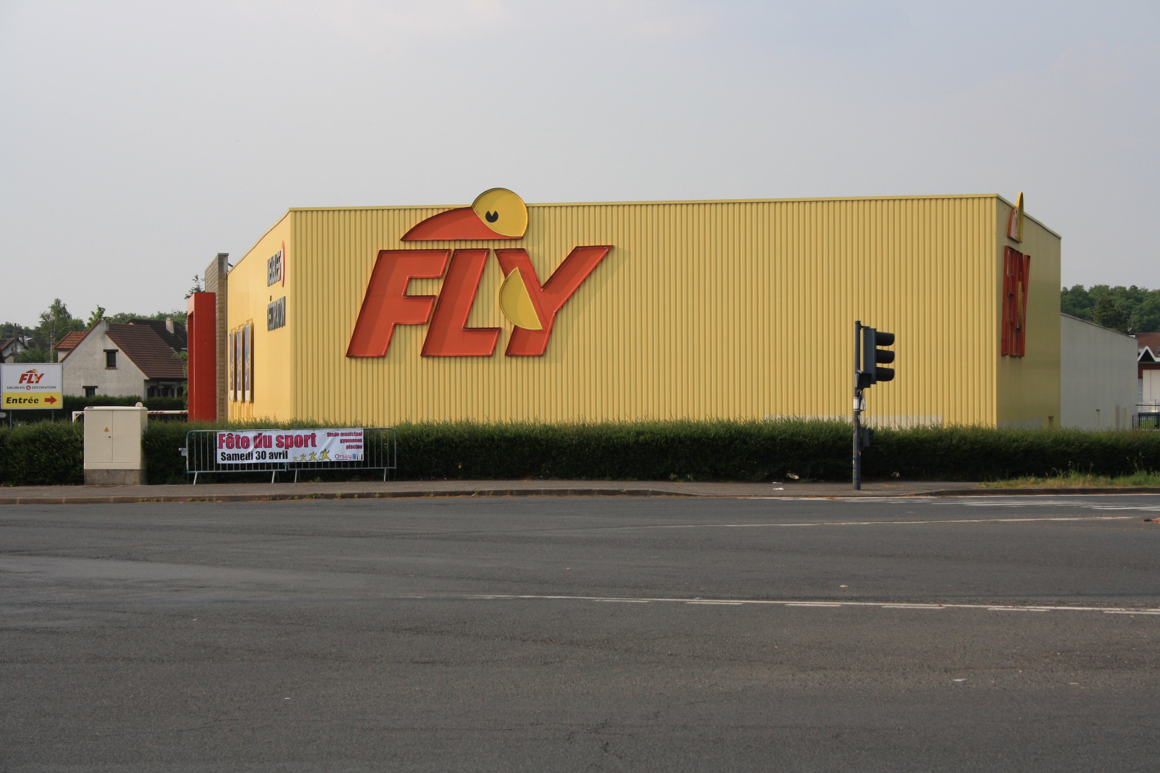 Fly shop in Orsay, in the department of Essonne, France.